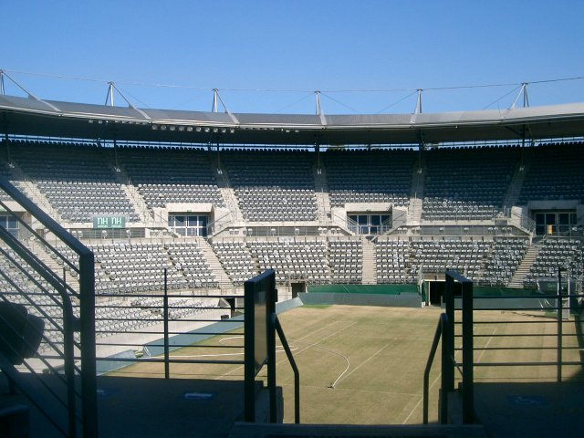 Sydney Olympic Park Tennis Centre